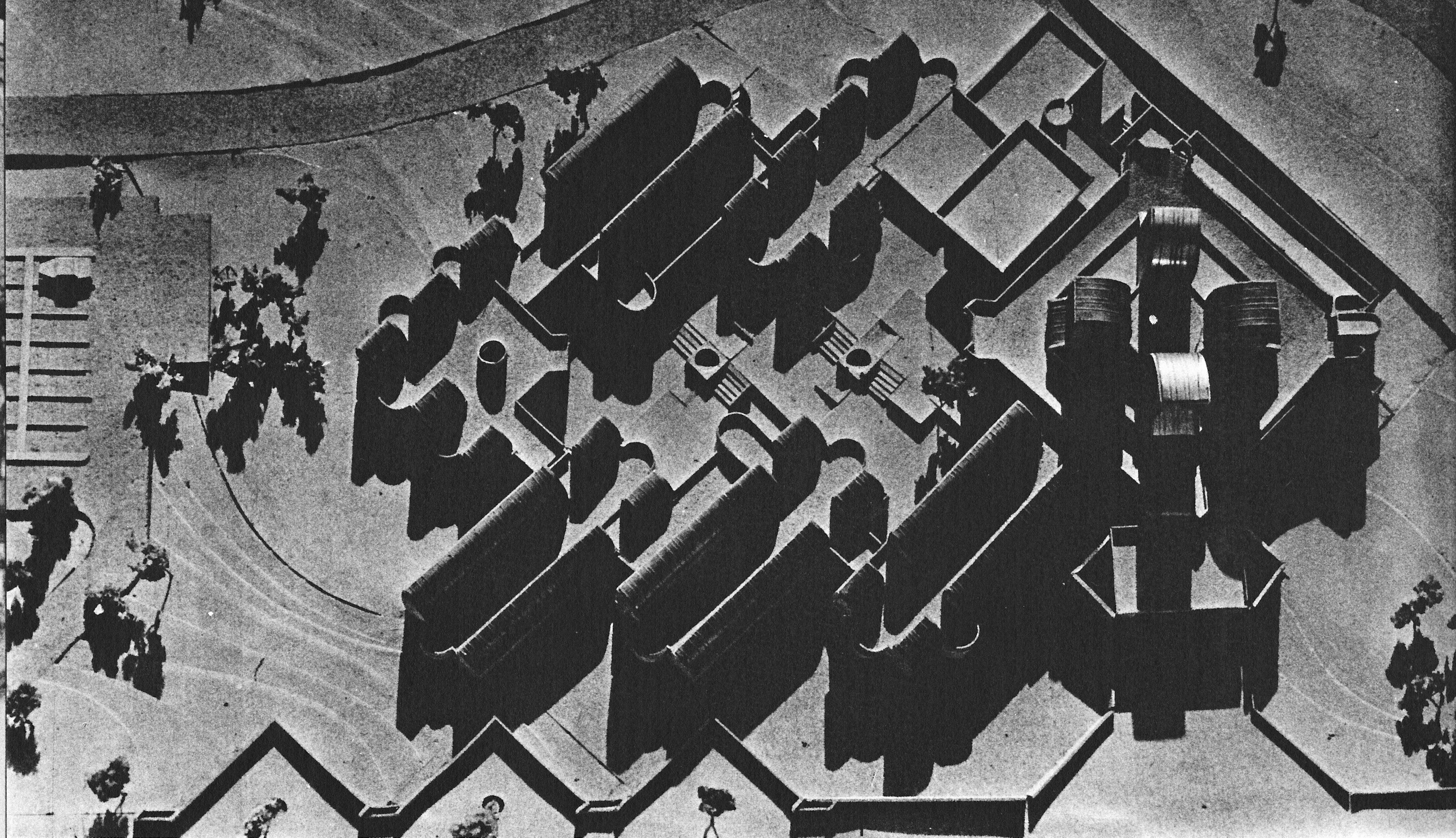 model Tehran Museum of Contemporary Art, 1975